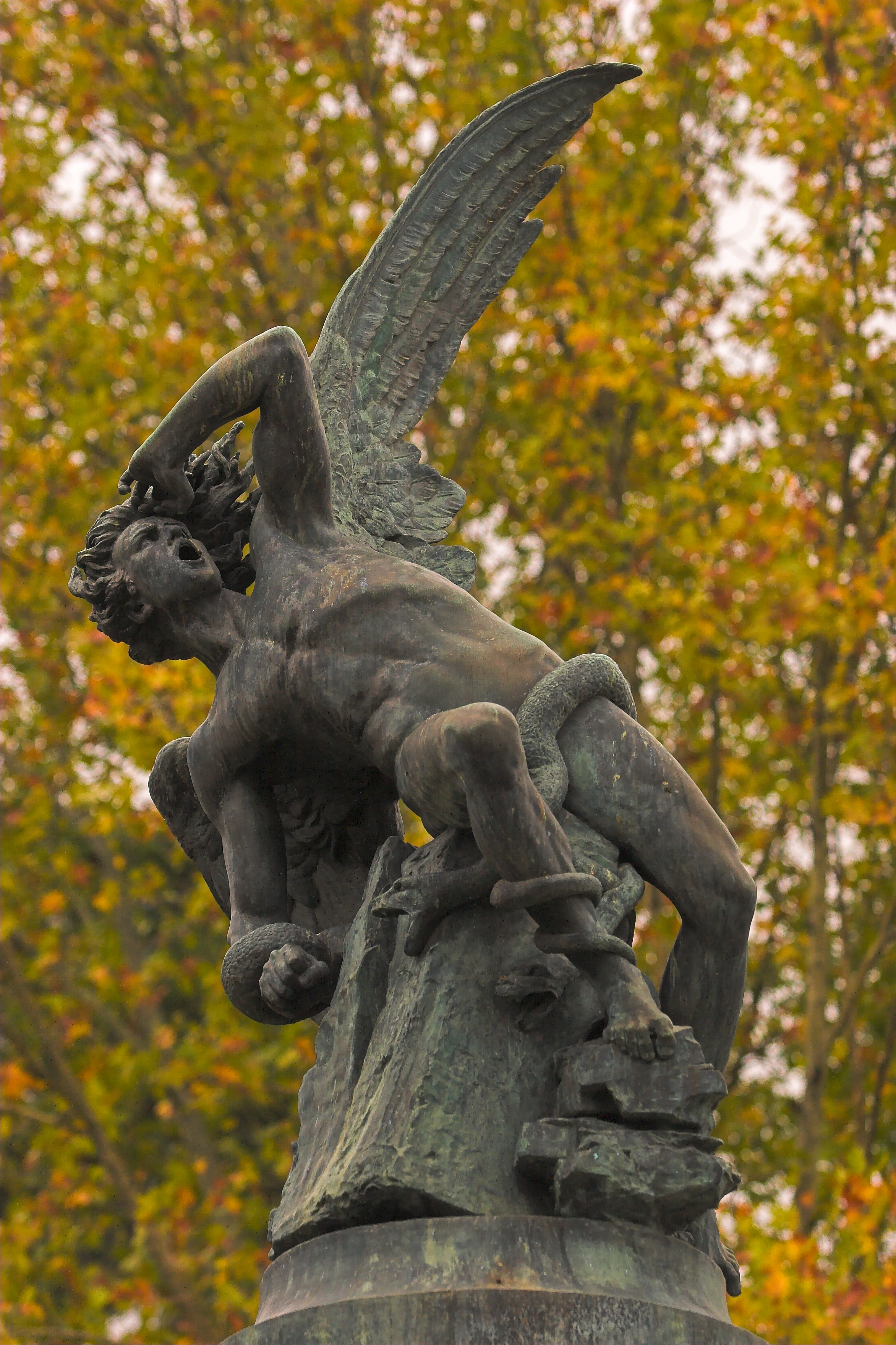 The sculpture of The Fallen Angel at Plaza del Ángel Caído, in the Retiro Park in Madrid (Spain). Created in 1877 and cast in bronze for Universal Exposition in Paris. Work by Ricardo Bellver (1845-1924), a Spanish sculptor. Photo by Thermos.